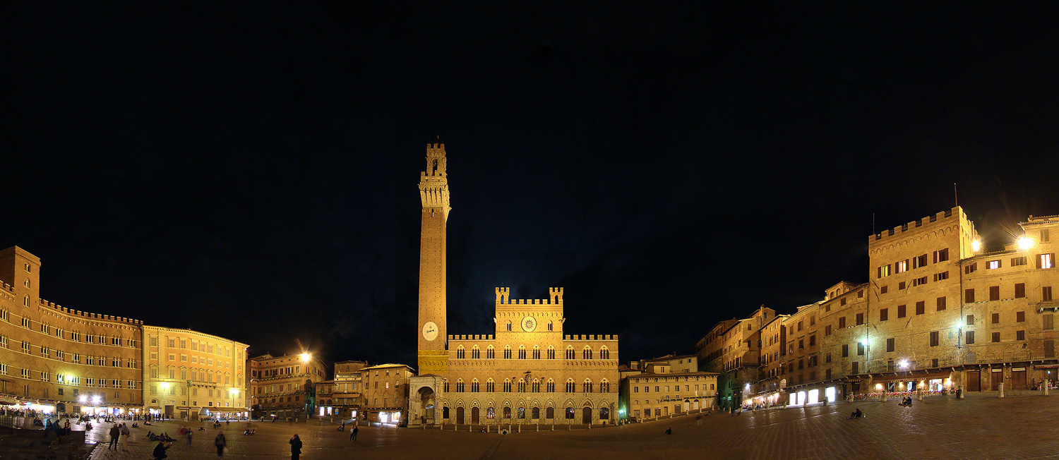 Piazza del Campo, Siena, Tuscany, Italy.